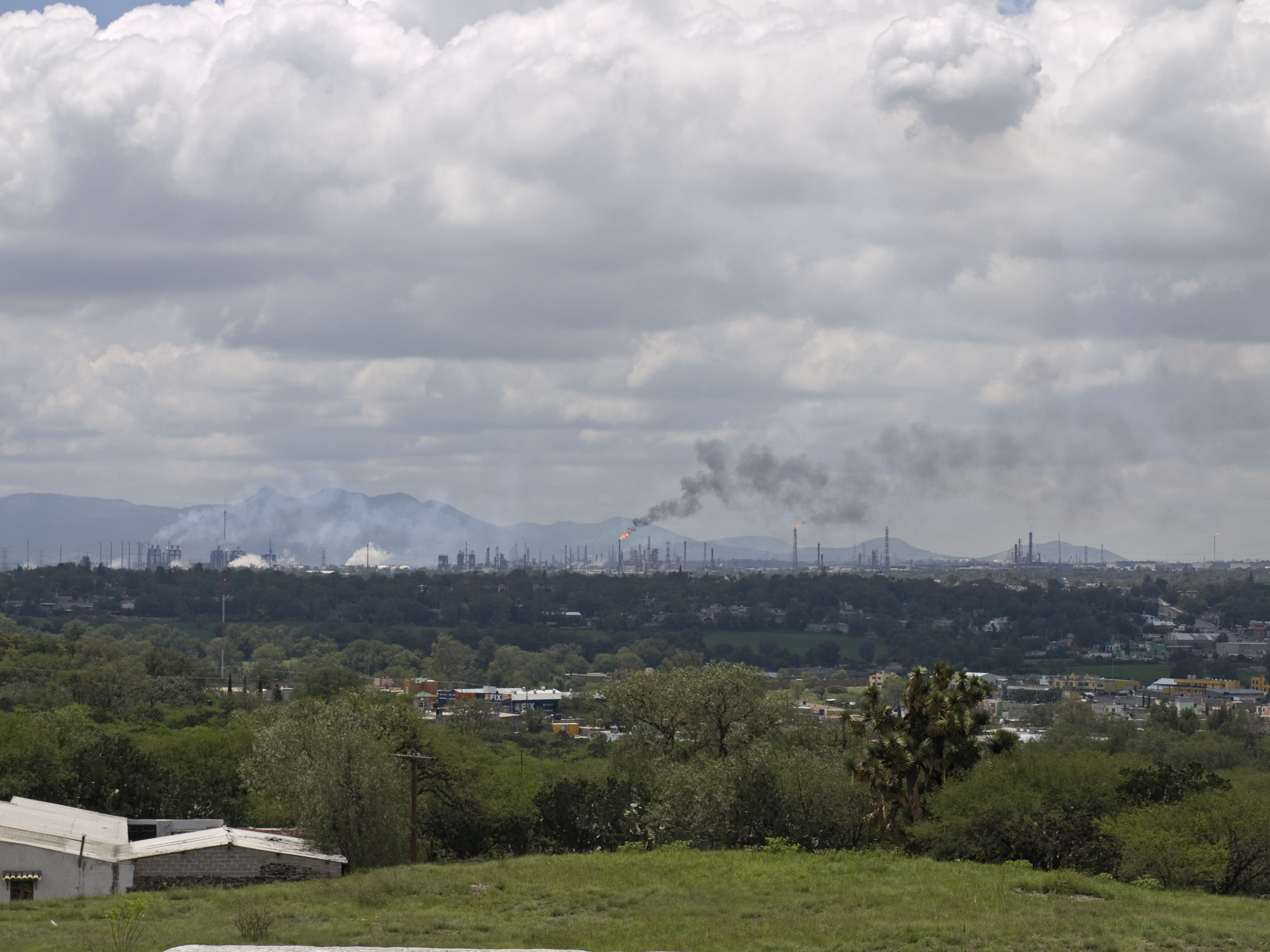 Refinery in Tula de Allende. Taken from Pyramide B